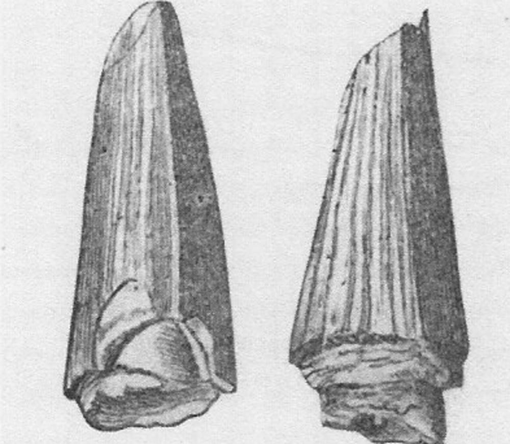 Illustration of type specimen of Pliogonodon priscus by Ebenezer Emmons, 1858, originally from Emmons, E. (1858). "Report of the North Carolina Geological Survey. Agriculture of the Eastern Counties; together with Descriptions of the Fossils of the Marl Beds" North Carolina Geological Survey: 223-224.